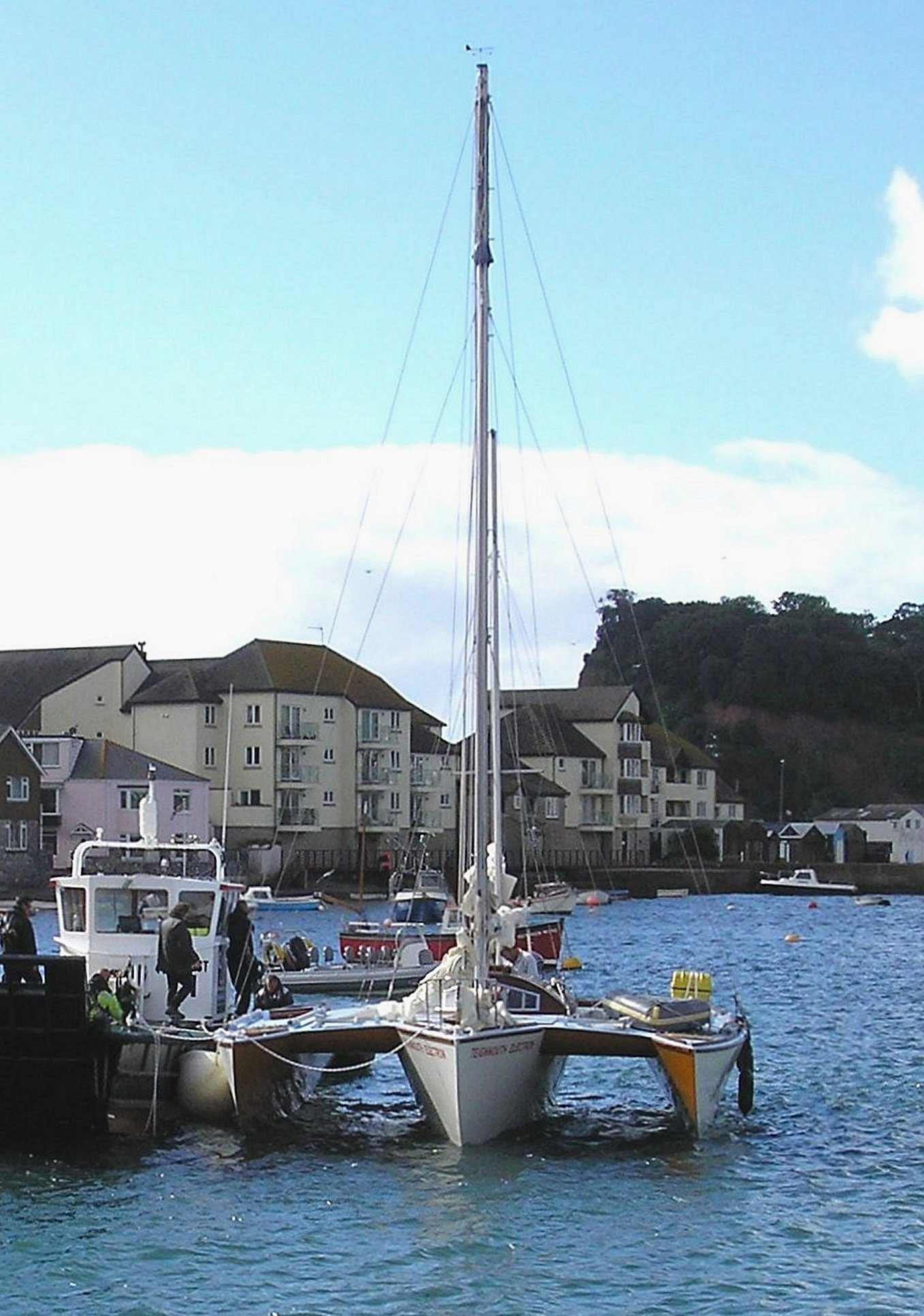 Full scale replica of yachtsman Donald Crowhurst's trimaran "Teignmouth Electron" as constructed for the 2017 film "The Mercy", in Teignmouth, 2015 (crop from original photo at ); original on Flickr at